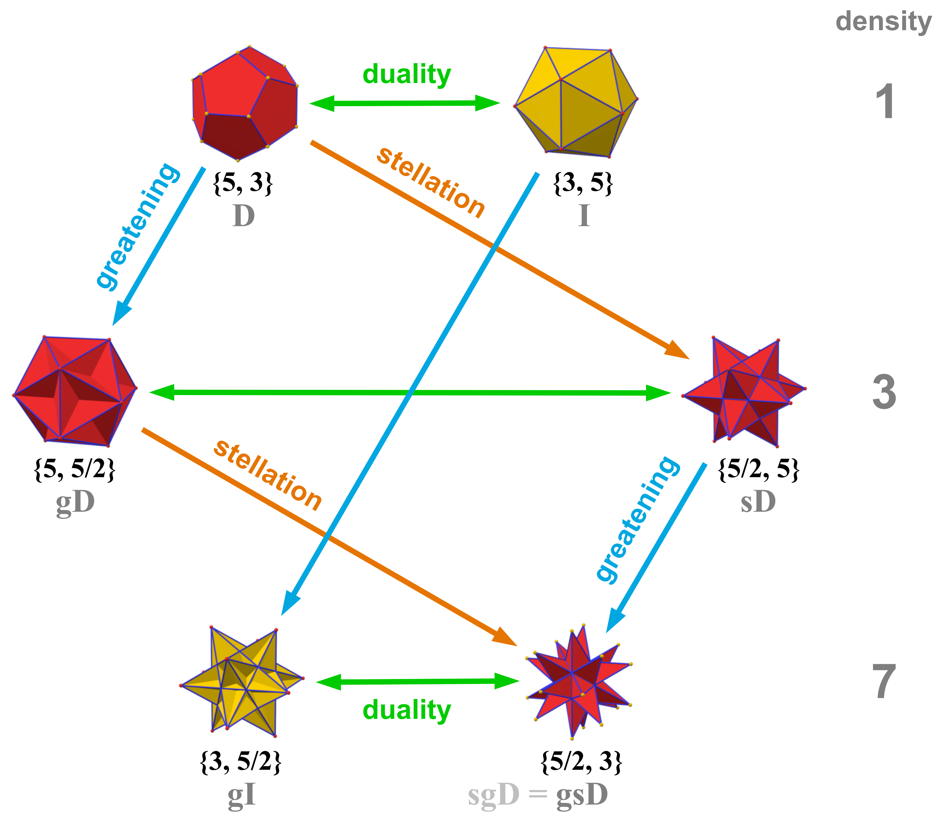 Conway relations between regular polyhedra with icosahedral symmetry Image set Kepler-Poinsot solids with direction colorsPart of Polyhedra with direction colors (image set) great dodecahedron small stellated dodecahedron great icosahedron great stellated dodecahedron as pentakis dodecahedron as triakis icosahedron